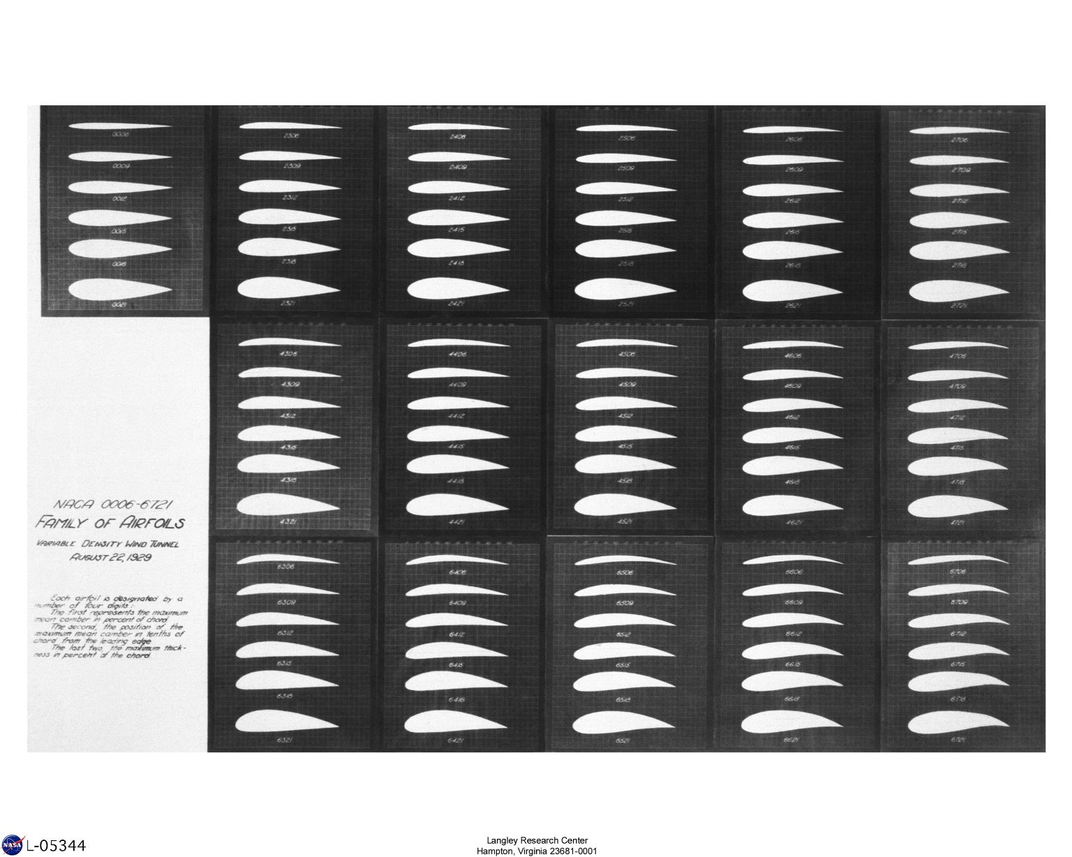 Description By August 1929, tests in the Variable Density Tunnel had derived the family of airfoils NACA 0006 through NACA 6721, shown here in cross-section. Published in James R. Hansen, Engineer in Charge, NASA SP- 4305, p. 98. Center: LARC Image # : L-05344 Date: February 21, 1931